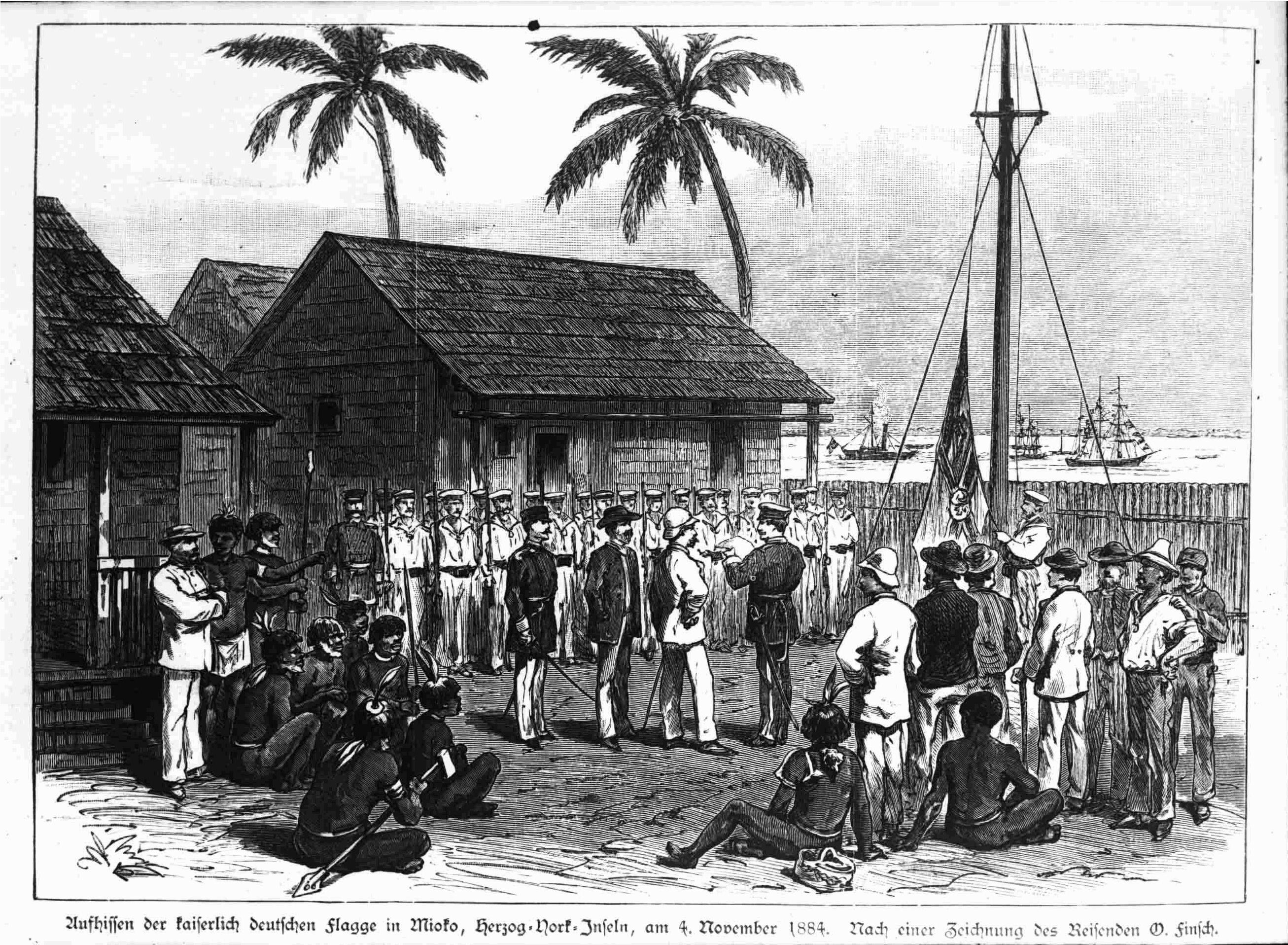 Hoisting of the German Imperial War Flag on November 4th 1884 on Mioko Island, Neulauenburg, Bismarck Archipelago (now Duke of York Islands, Papua New Guinea).